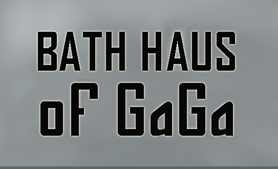 Bath Haus of GaGa sign.